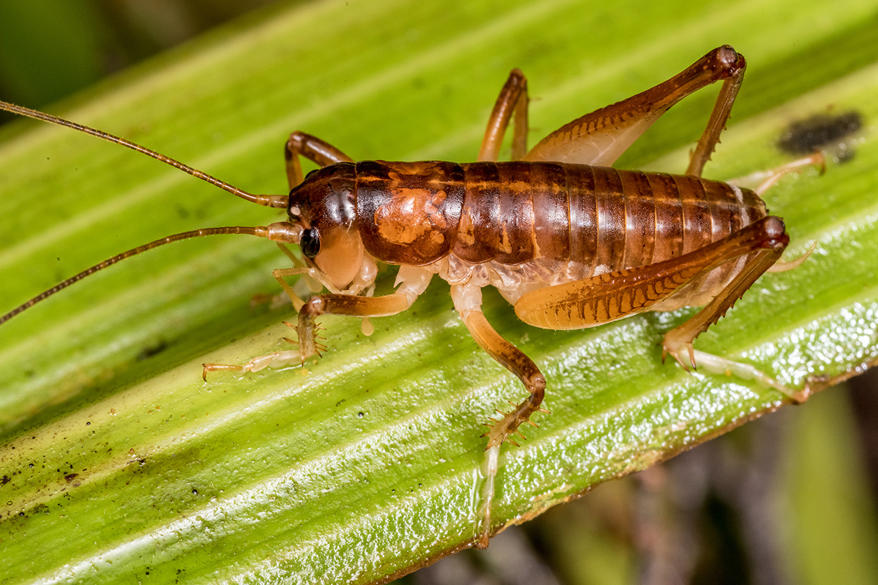 Hemiandrus electra adult male. Cave Brook, Gouland Downs, Kahurangi National Park.